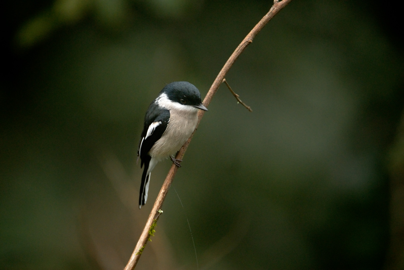 Hemipus picatus